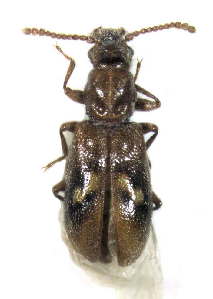 adult Agapytho foveicollis, colour darkened somewhat to show pronotal foveae more clearly